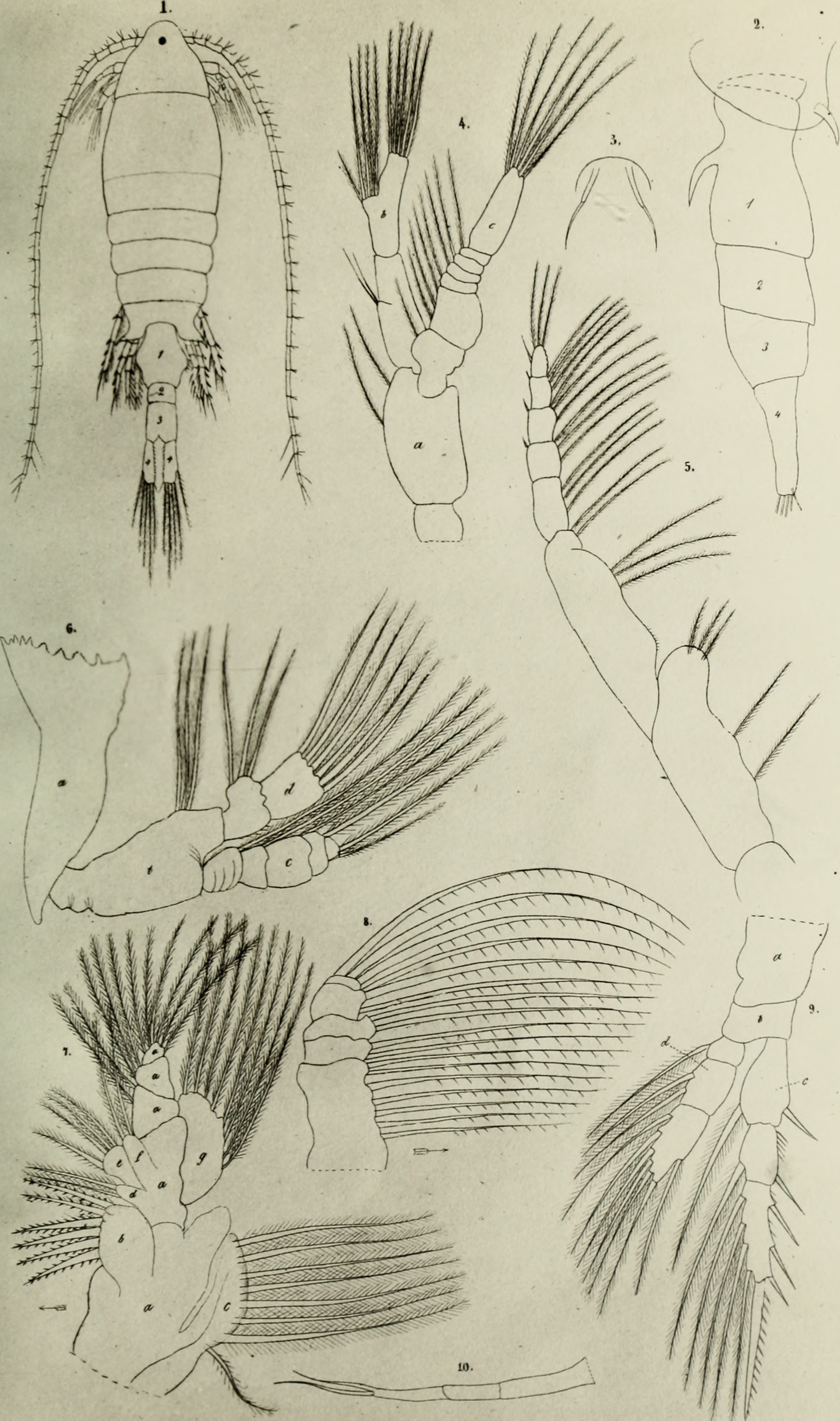 Title: De crustaceis ex ordinibus tribus : Cladocera, Ostracoda et Copepoda in Scania occurrentibus = om, De inom SkÃ¥ne fÃ¶rekommande crustaceer af ordningarne : Cladocera, Ostracoda och Copepoda Year: 1853 (1850s) Authors: Liljeborg, Wilh Subjects: Crustacea; Cladocera; Copepoda; Ostracoda Publisher: Lund : Berlingska Boktryckeriet Text Appearing Before Image: Tak. XXI Text Appearing After Image: ju ,tÂ«r. ^Â«? -***â &*. z,v. A-.r,â